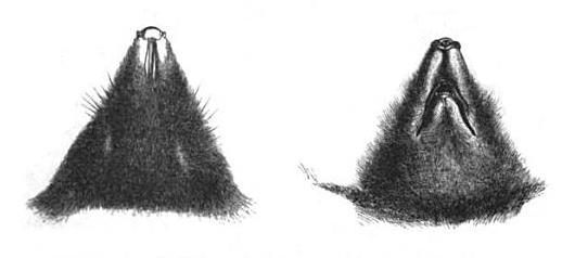 head drawings of Talpa caeca (Blind Mole) original caption: Talpa caeca Savi. Sopra la talpa cieaca degli antichi. 1822 Talpa caeca Bonap. Icon. d. F. ital. fasc. II. fol. 7.